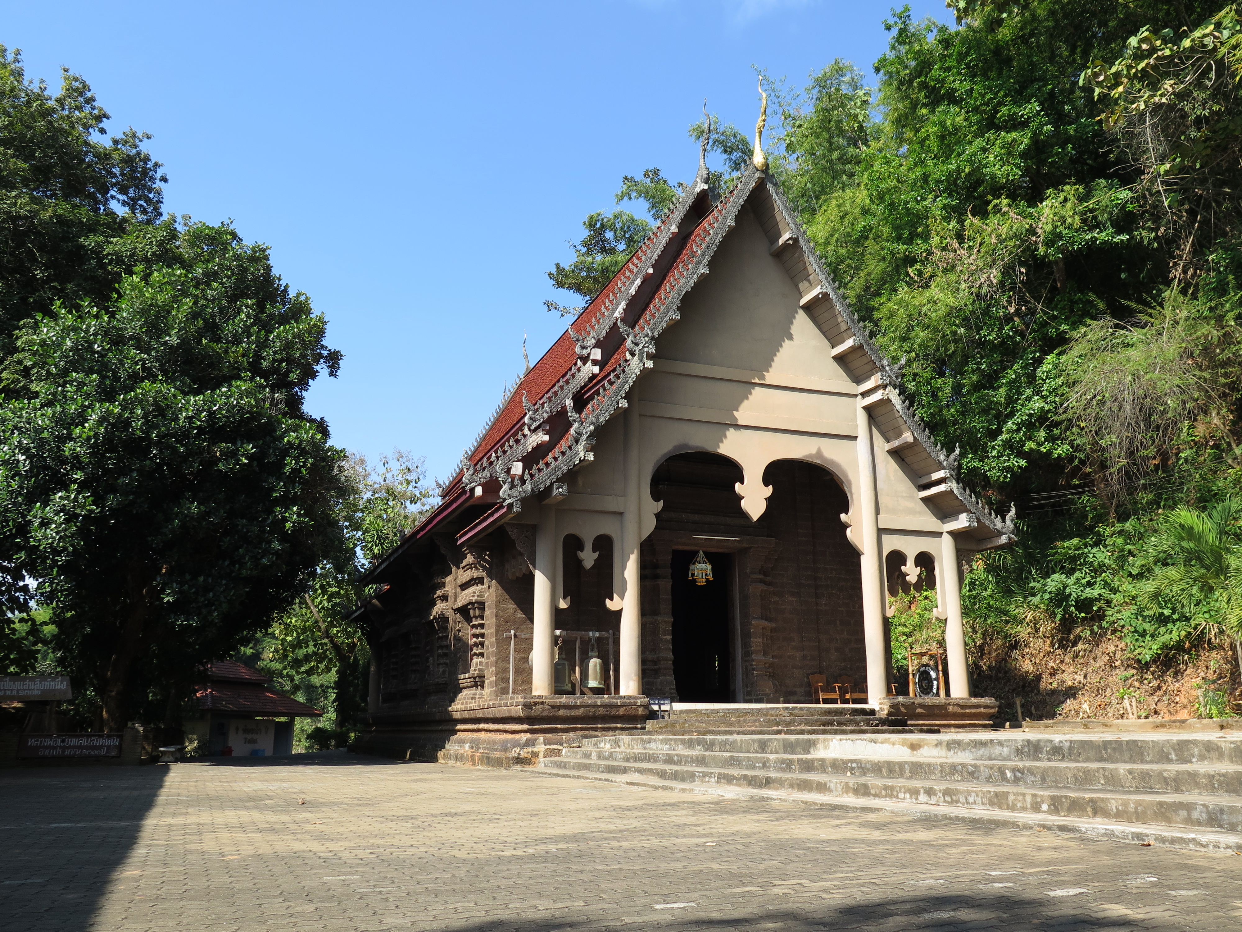 Wat Prathat Pukhao. Sop Ruak, Chiang Rai, Thailand.